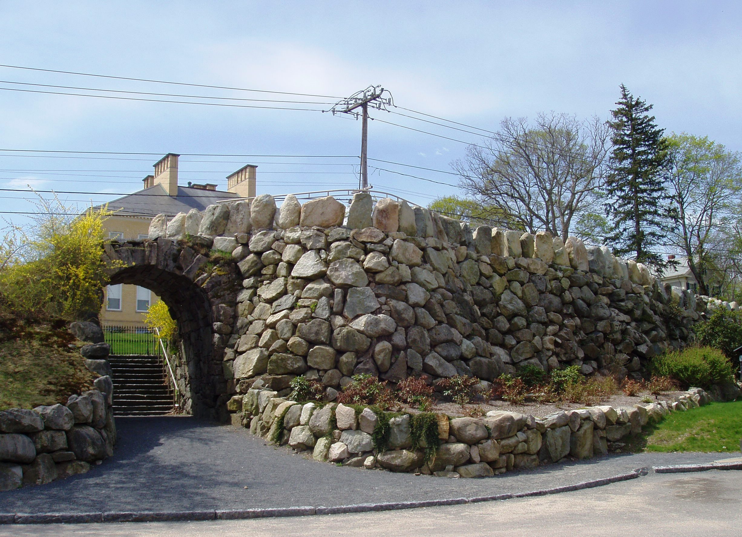 The Rockery, North Easton, Massachusetts, USA. Memorial cairn for the Civil War dead by noted landscape architect Frederick Law Olmsted.